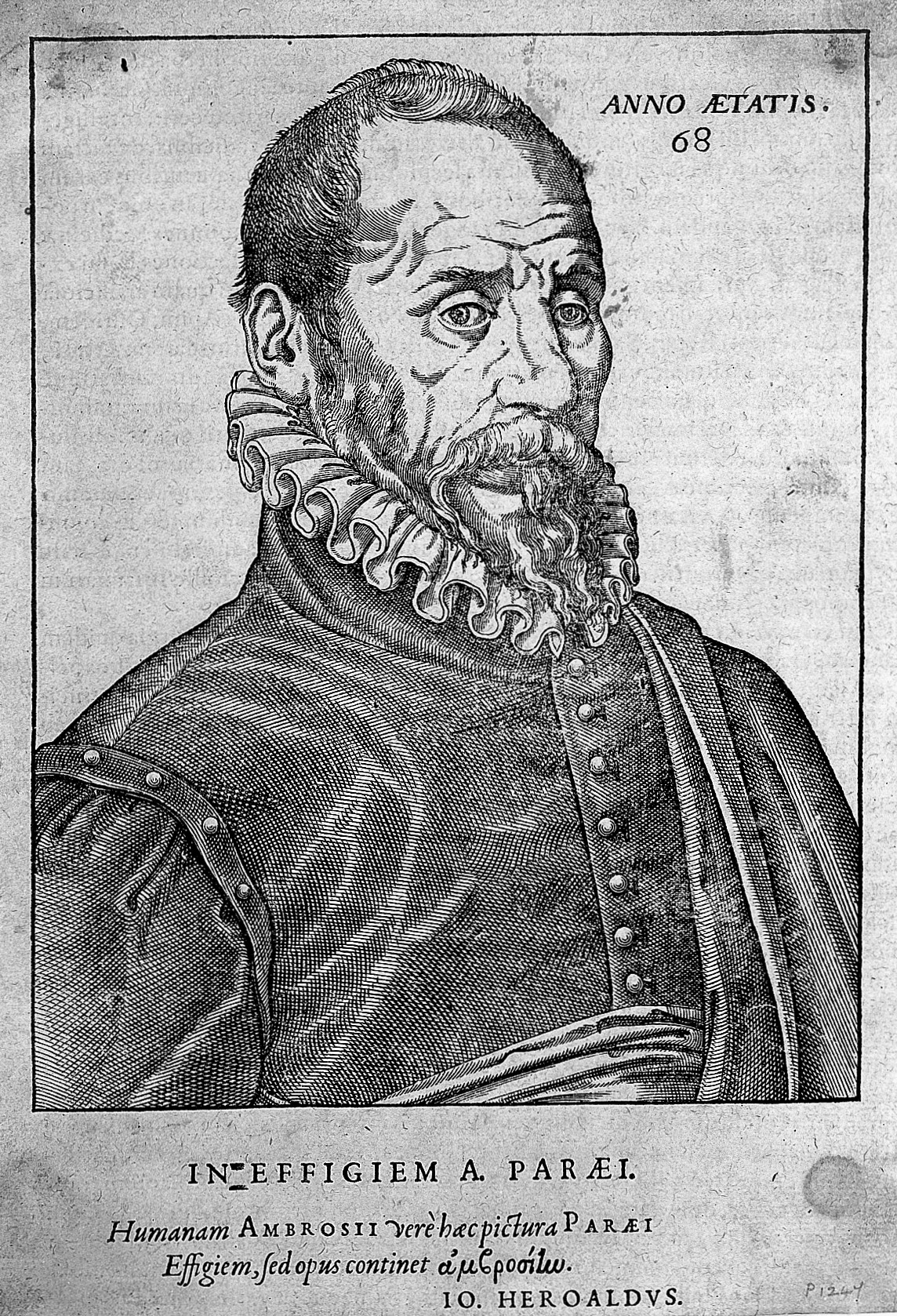 Portrait of Ambroise Pare [1510 - 1590], French surgeon Rare Books Keywords: Surgeon; Ambroise Paré